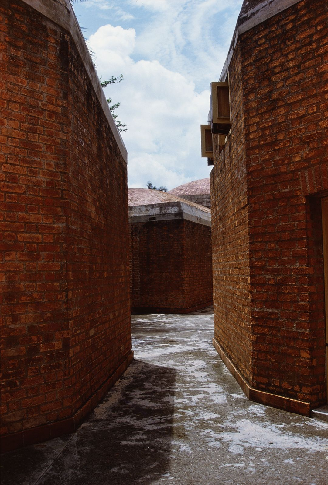 Photograph of architect Roberto Gottardi's school of dramatic arts, part of Cuba's National Art Schools. The School of Dramatic Arts is urban in concept. Dramatic Arts is organized as a very compact, axial, cellular plan around a central plaza amphitheater. Its inward-looking nature creates a closed fortress-like exterior. The amphitheater, fronting the unbuilt theater at what now is the entrance, is the focal point of all the subsidiary functions, which are grouped around it. Circulation takes place in the narrow leftover interstices, open to the sky like streets, between the positive volumes of the masonry cells. Winding more or less concentrically through the complex, circulation negates the axiality and generalized symmetry that organize the plan. This presents an interesting contradiction between the formal and the experiential. While quite ordered in plan, the experience of walking through the complex is random and episodic.